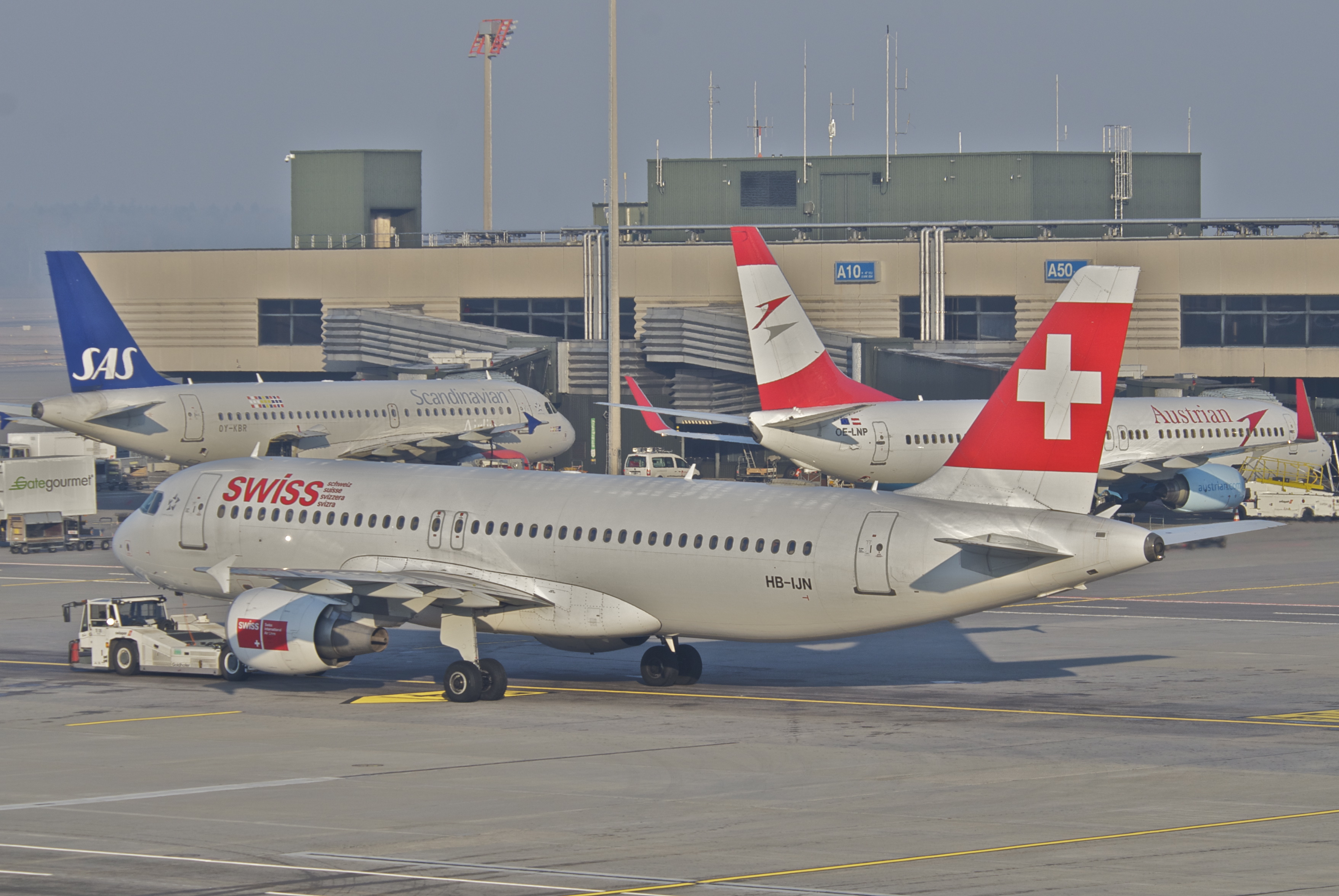 Three Star Alliance airlines meet at ZRH... First flight: November 7, 1996... (c/n 643)